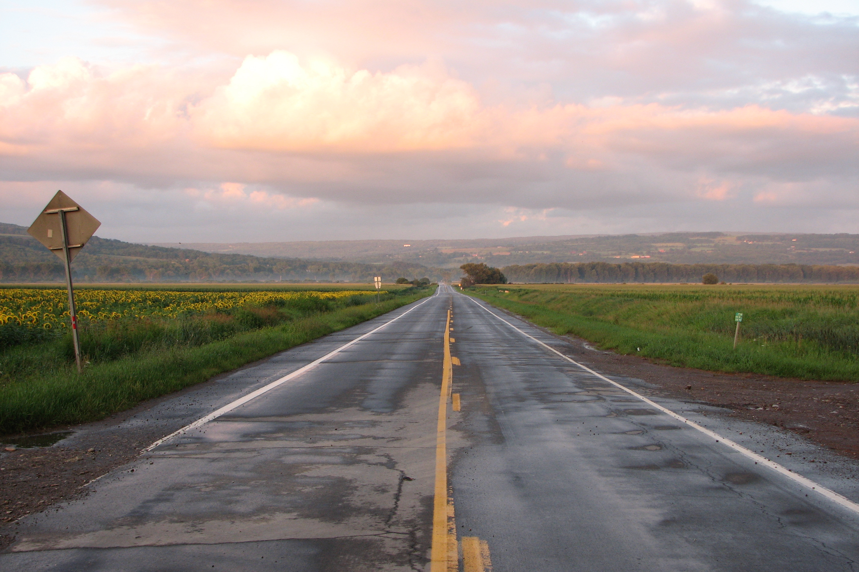 Part of Flats Road (New York State Route 258). On the left side of the road is Mount Morris, New York, on the right is West Sparta, and in the distance is Groveland.